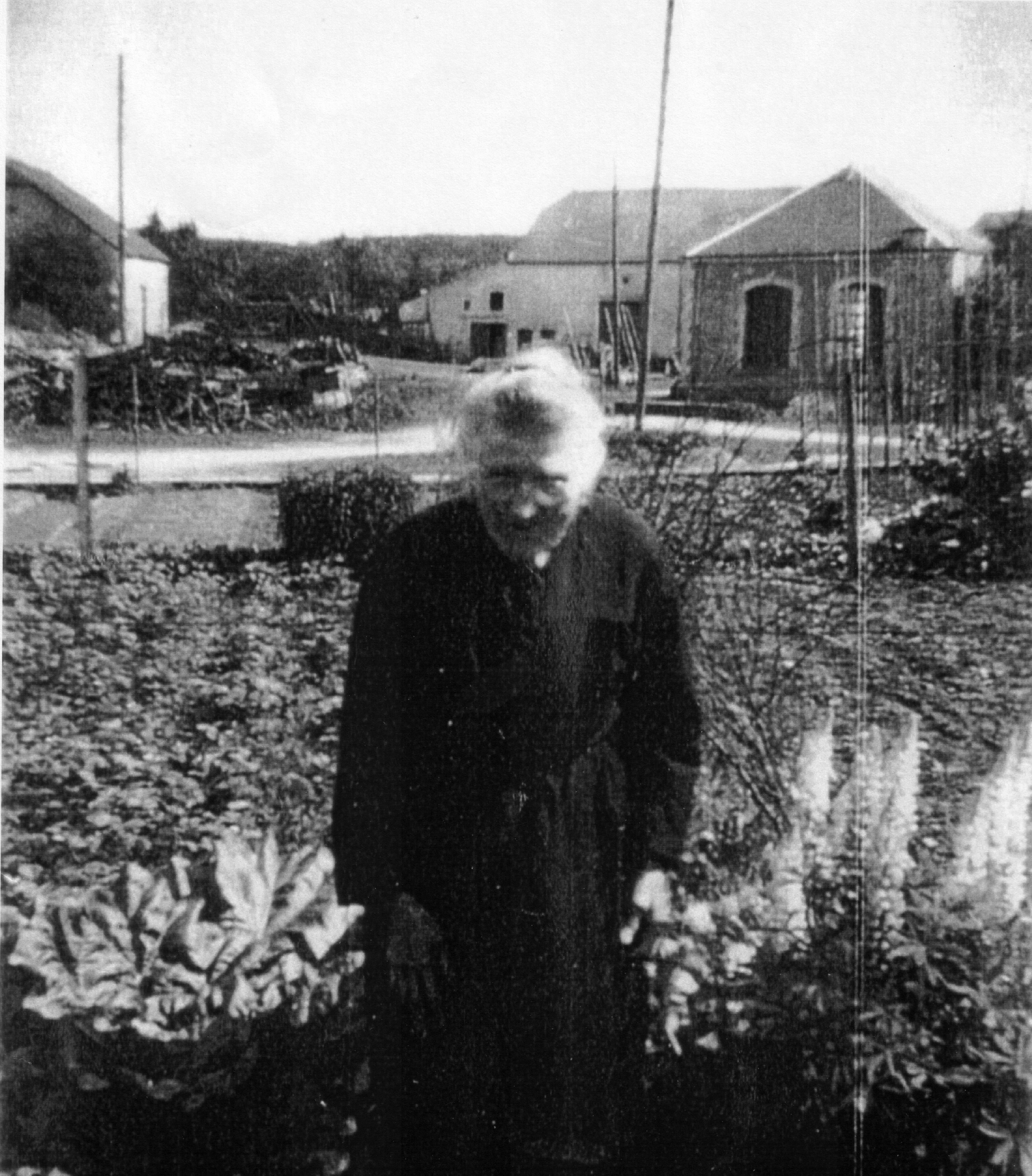 A woman (Sophie Trodoux, Wife of Mr. Richard) in front of the ancient wash house of Les Bulles, Belgium.